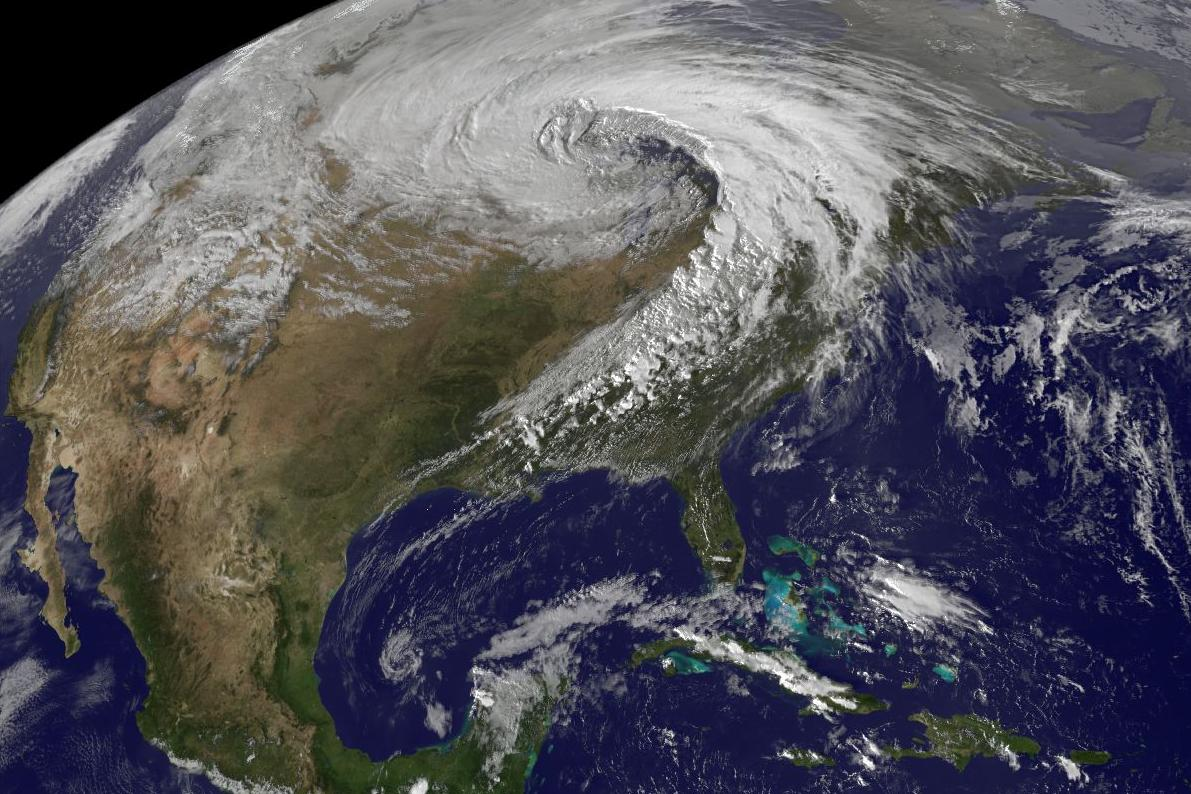 Satellite image of the 2010-10-26 low pressure area over the United States